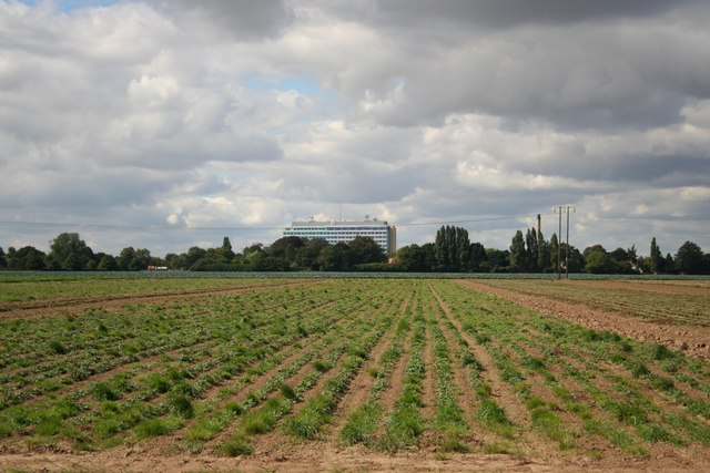 Pilgrim Hospital from Willoughby Hills. View westwards from Willoughby Hills towards Boston's Pilgrim Hospital .... a prominent landmark in a flat landscape.